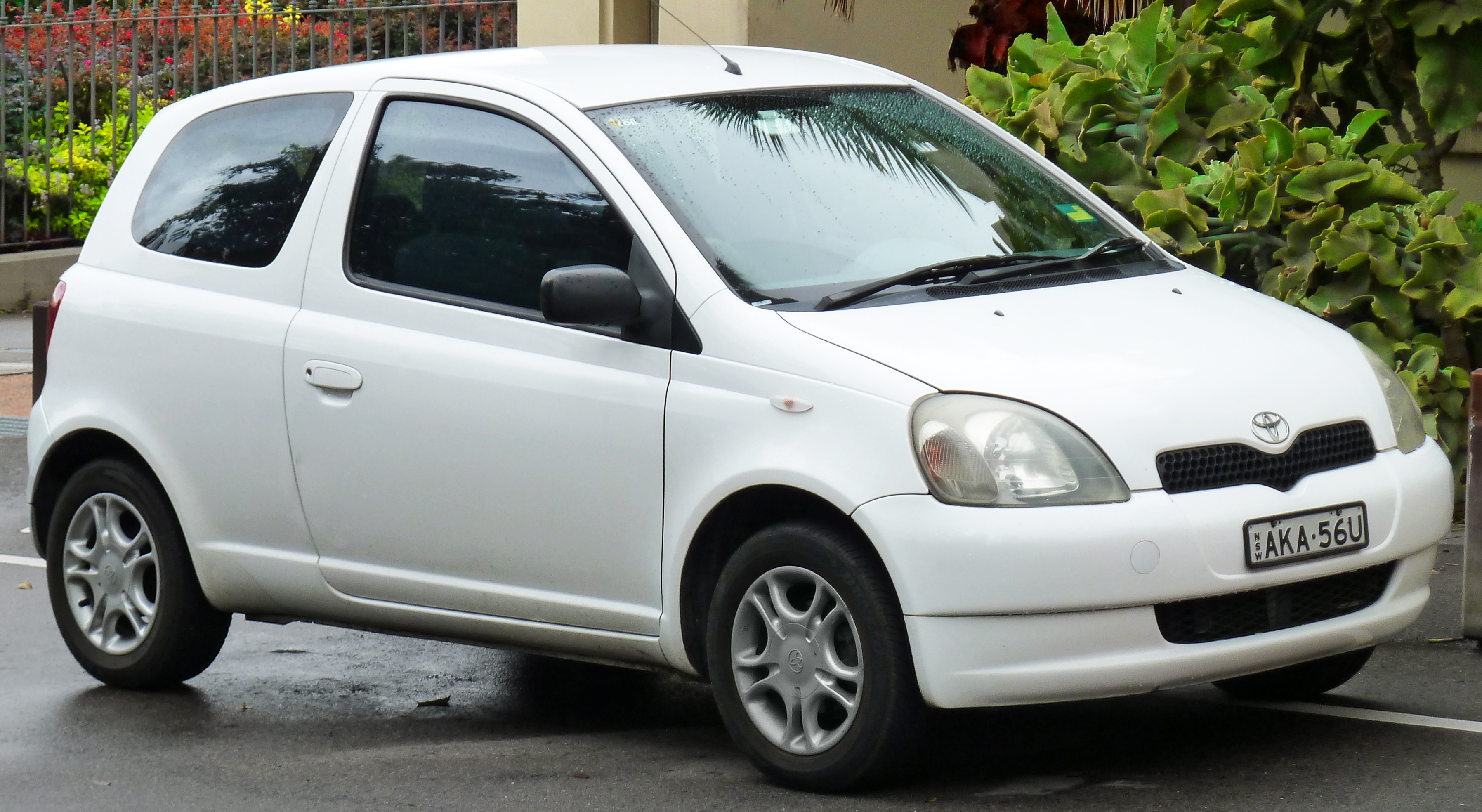 1999–2003 Toyota Echo (NCP10R) 3-door hatchback. Photographed on Conservatorium Road, Sydney, New South Wales, Australia.